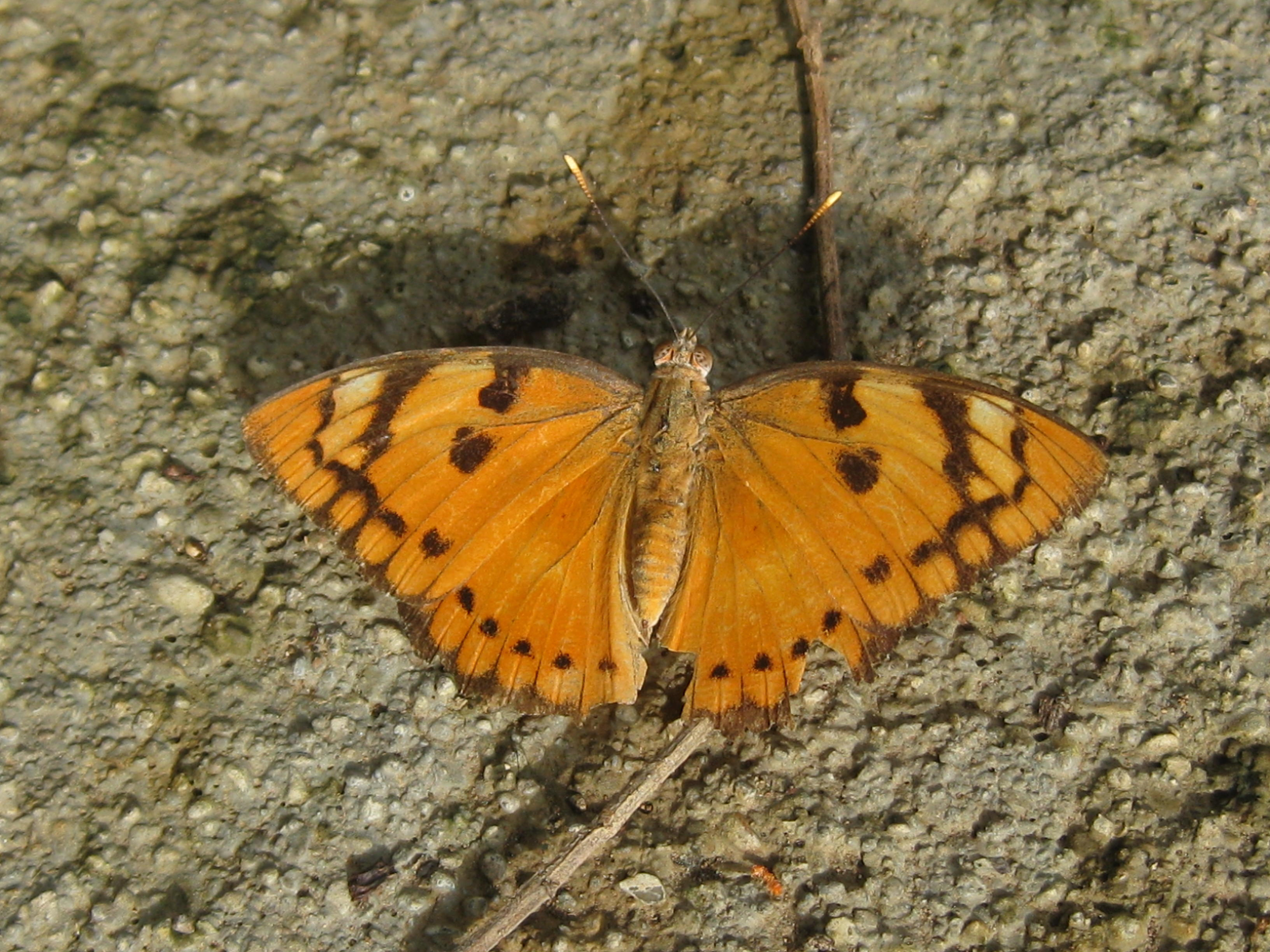 upper side; Bhenskatri, Dang, Gujarat